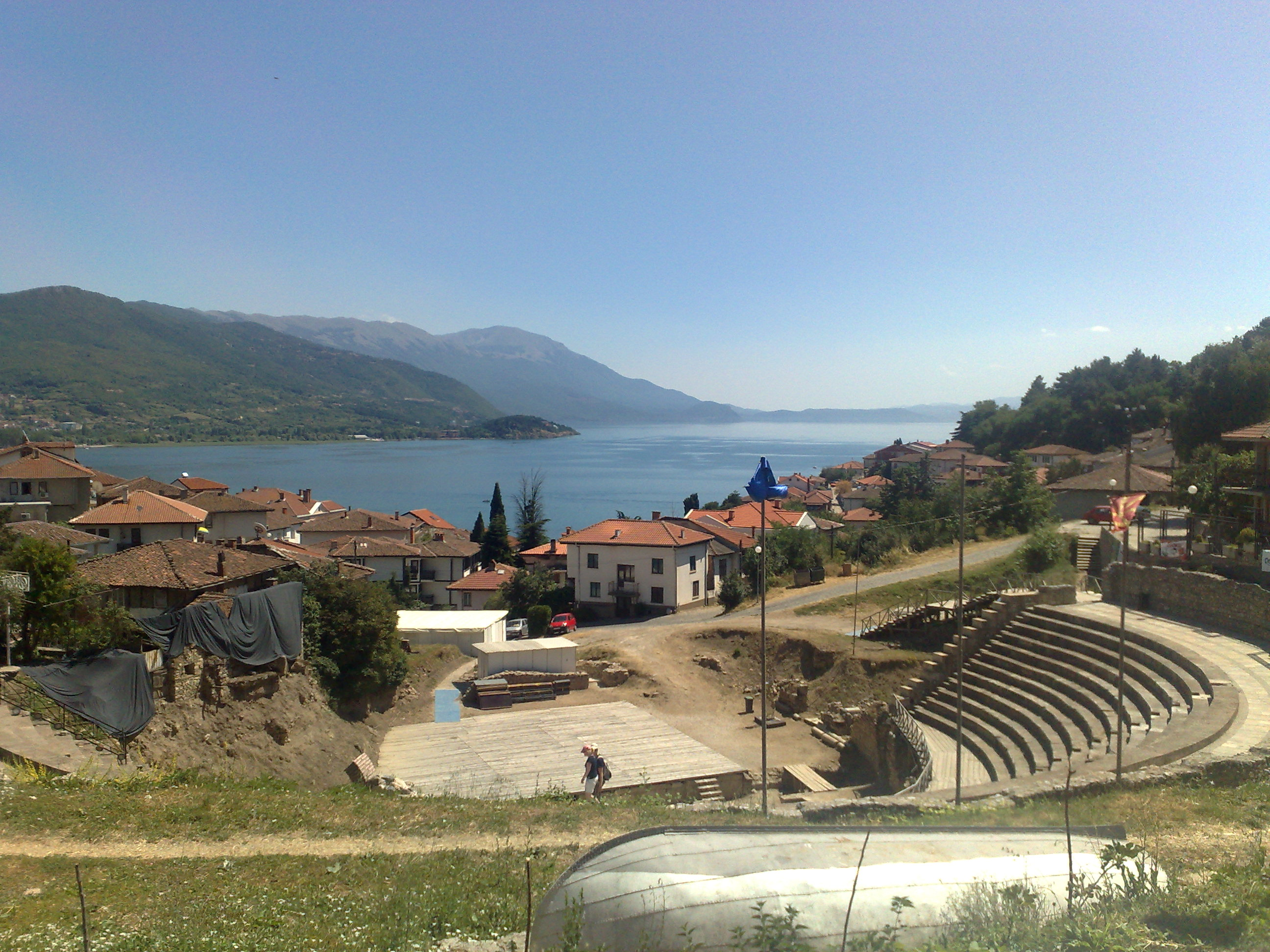 View from the ancient theater in Ohrid, Macedonia